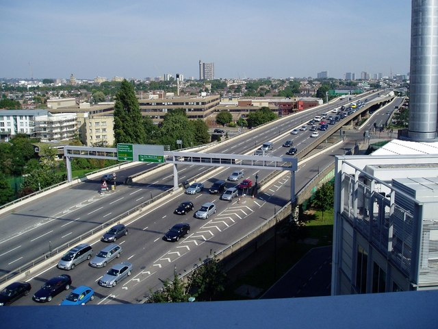 The A40 Westway near to Wood Lane, London, W12, looking east